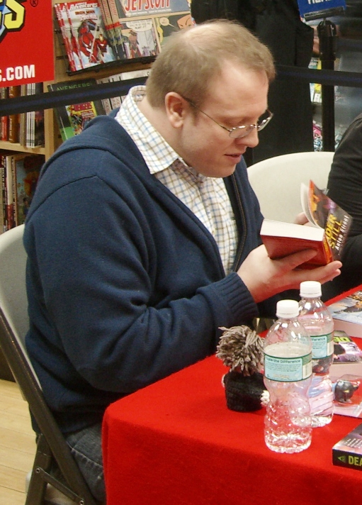 Novelist Anton Strout at a signing for Strout’s novel, Dead Matter at Midtown Comics Times Square in Manhattan. Photo by Luigi Novi. This photo may be used for any purpose, provided that the photographer is visibly credited in each instance where it is used (See Licensing information below). For further information on the Licensing requirements, contact me here.